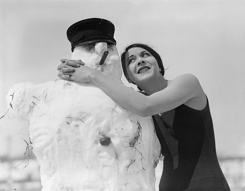 Silent film actress Fritzi Ridgeway.